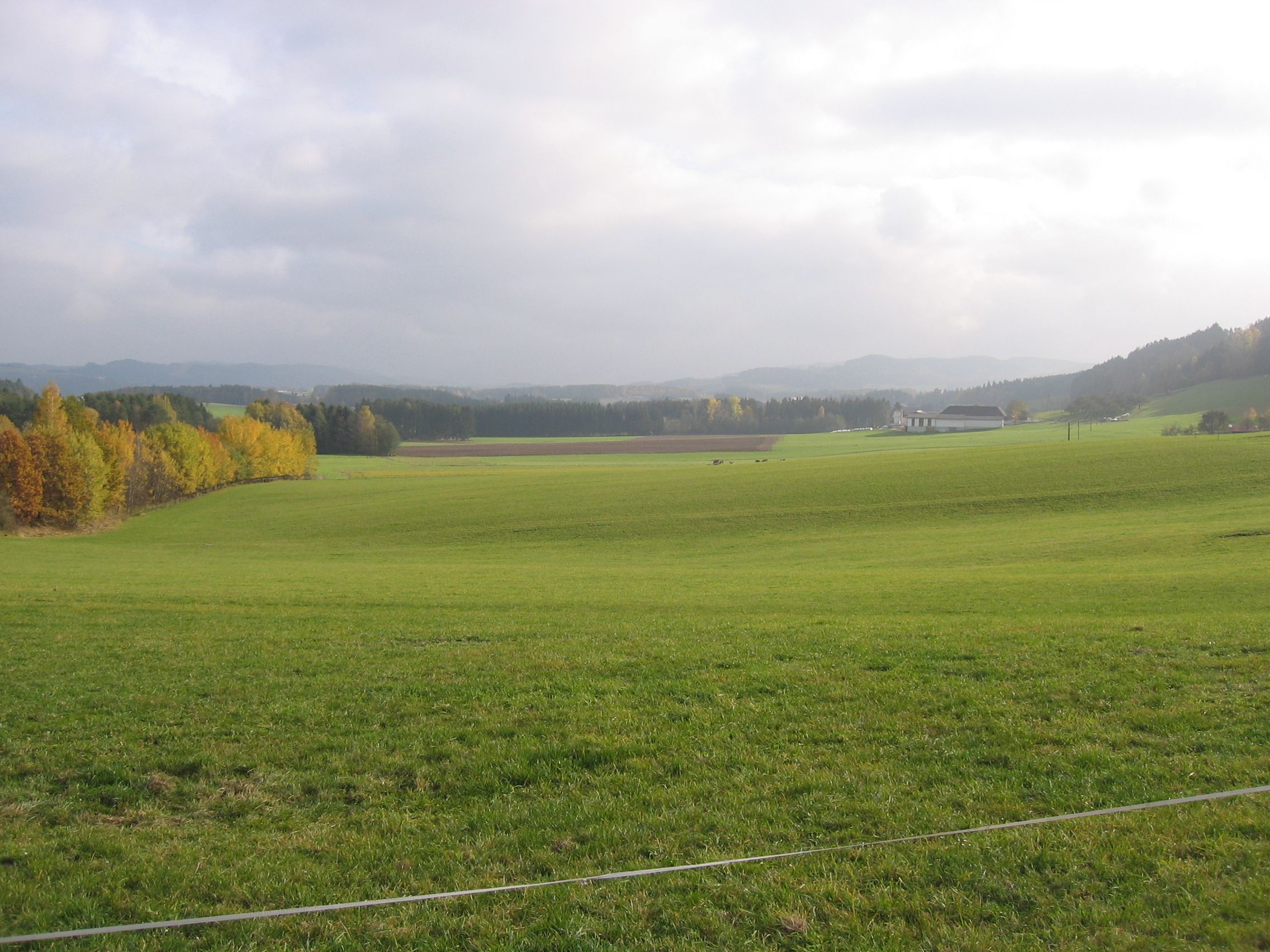 Freistädter Becken in south direction, foggy